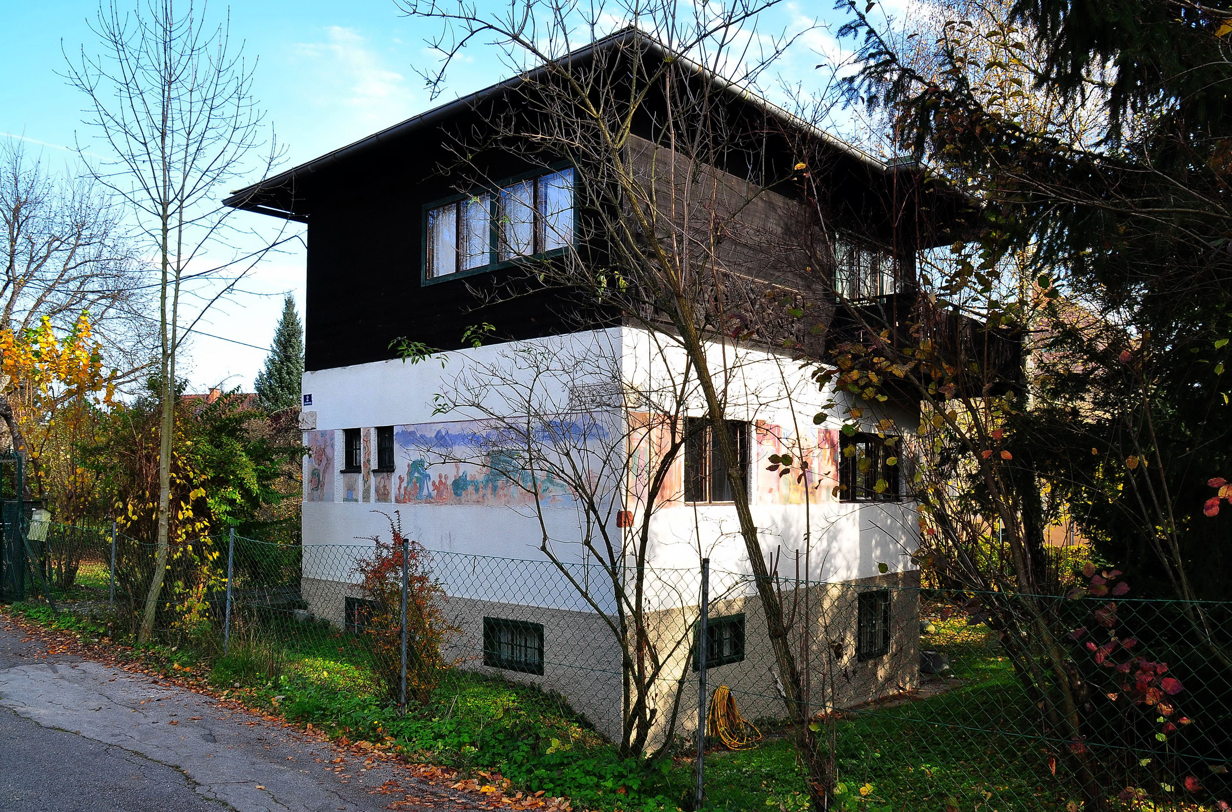 Residential house and art studio of the Benedictine monk, painter, sculpturist and wood-block engraver Switbert Lobisser on the Lobisserweg #2, Villacher Vorstadt, Klagenfurt, Carinthia, Austria